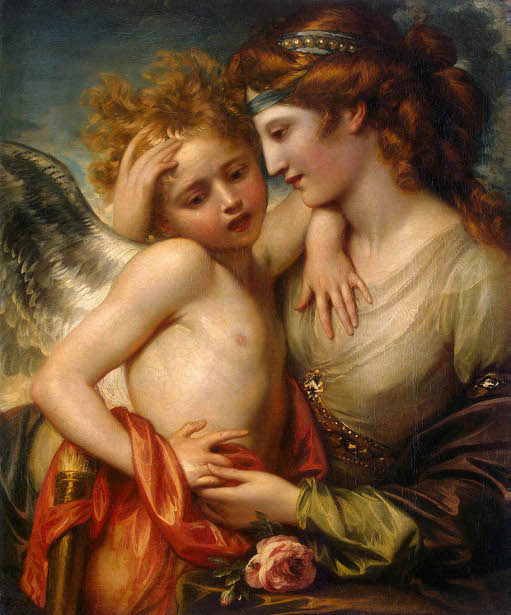 Venus consoling Cupid, stung by a bee